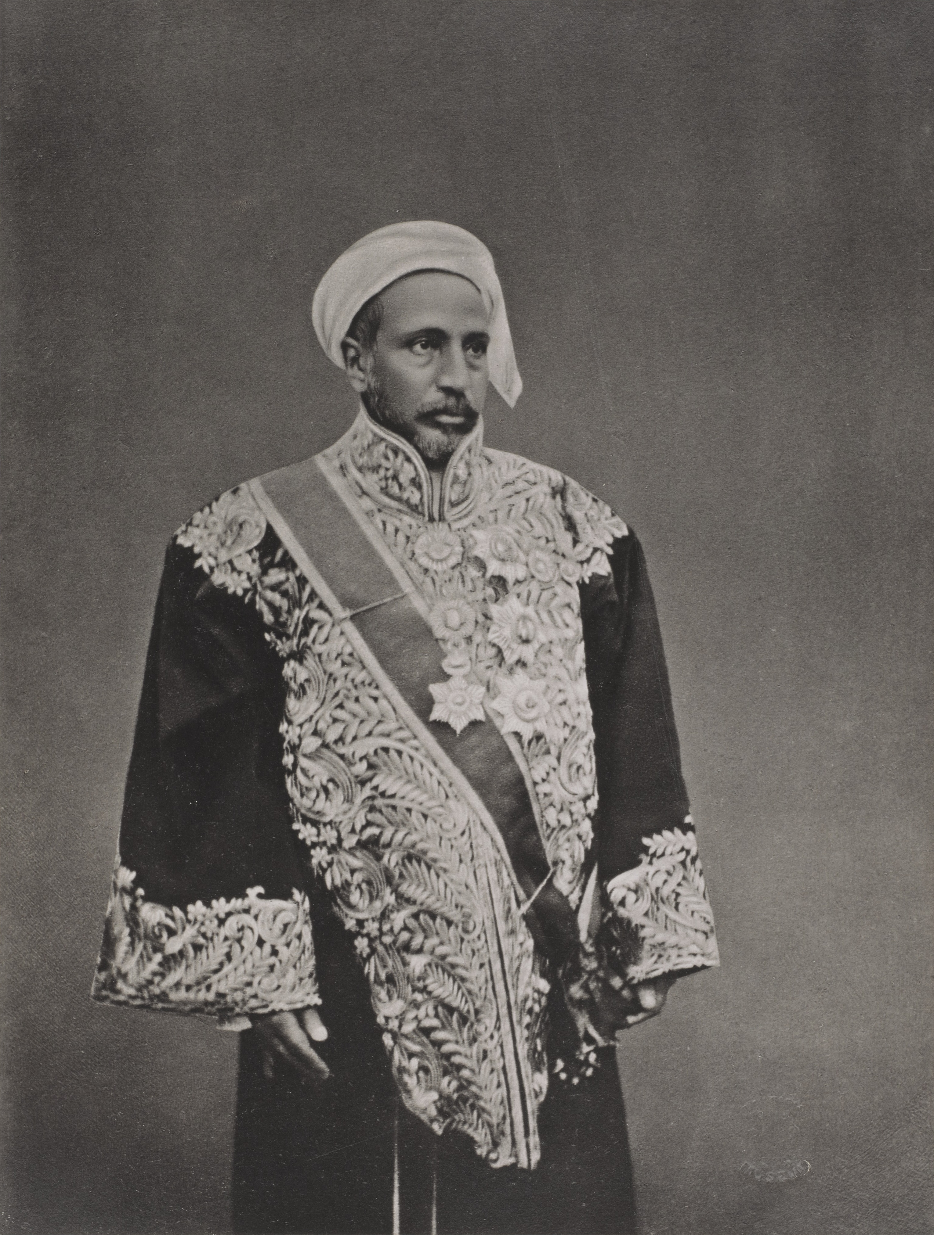 This three-quarter length standing portrait, shows ‘Aun al-Rafīq Pasha who was the Grand Sharīf of Mecca 1882–1905. He faces right. He wears a turban and ceremonial robe embroidered richly with flower and foliage motifs as well as a sash held together at the waist. There are six elaborate stelliform and circular badges on the centre and the left of his robe. The negative has had hand-work applied, causing the image to take on a soft-shaded paint-like quality. In particular the original background has been substituted while the lower right corner appears to have been etched in the negative. A circular 'British Museum' blind stamp is located in the lower right corner.